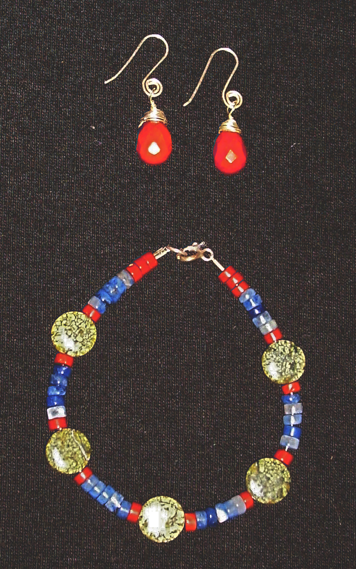 Earrings made from faceted jasper and sterling silver. Bracelet made from jasper, fluorite, and serpentine. Original designs.